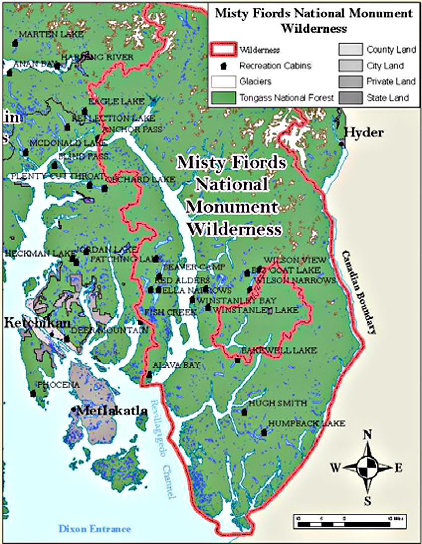 Map of Misty Fjords National Monument, Alaska, USA.